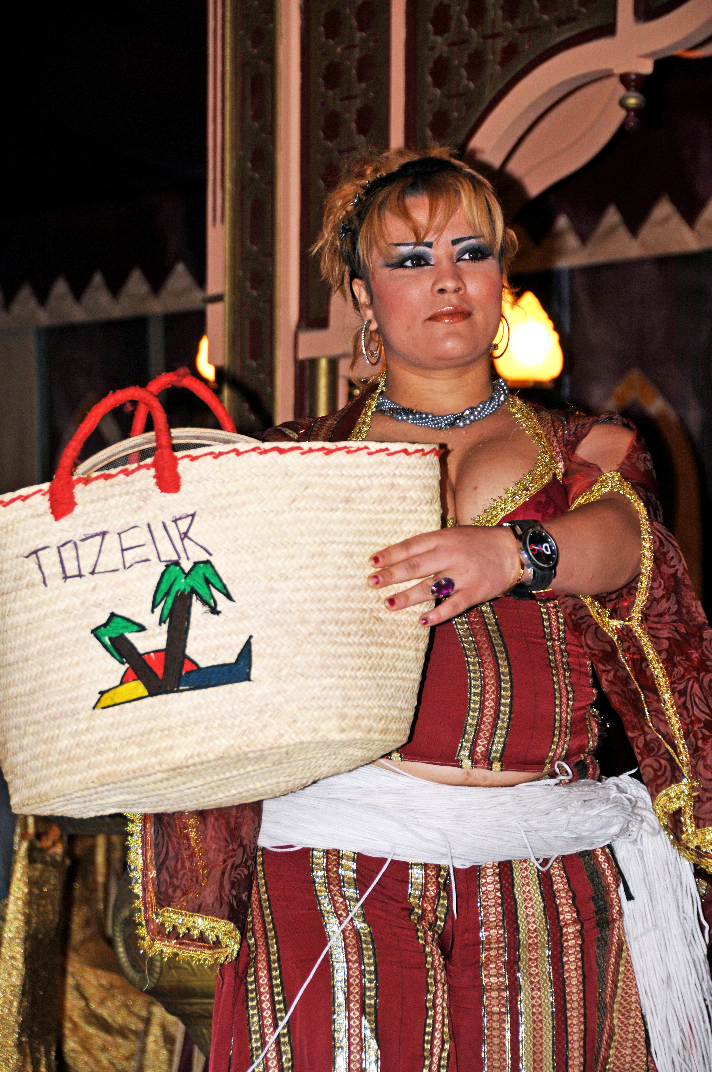 PLEASE, no multi invitations, glitters or self promotion in your comments, THEY WILL BE DELETED. My photos are FREE for anyone to use, just give me credit and it would be nice if you let me know, thanks - NONE OF MY PICTURES ARE HDR. Douar el Hafai in Tozeur is a great place to see some Tunisian culture, be entertained and have great food.